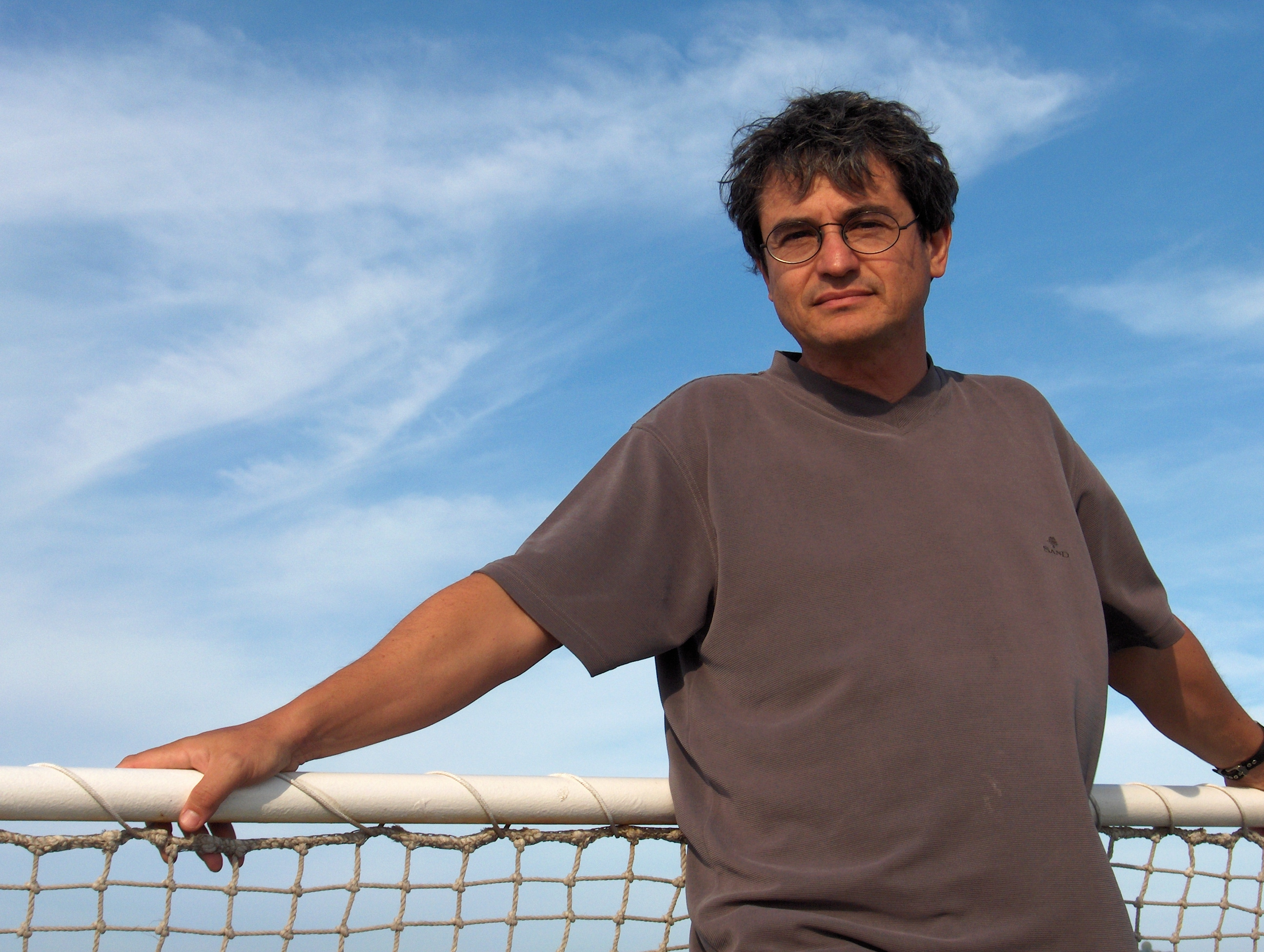 Italian physicist Carlo Rovelli.